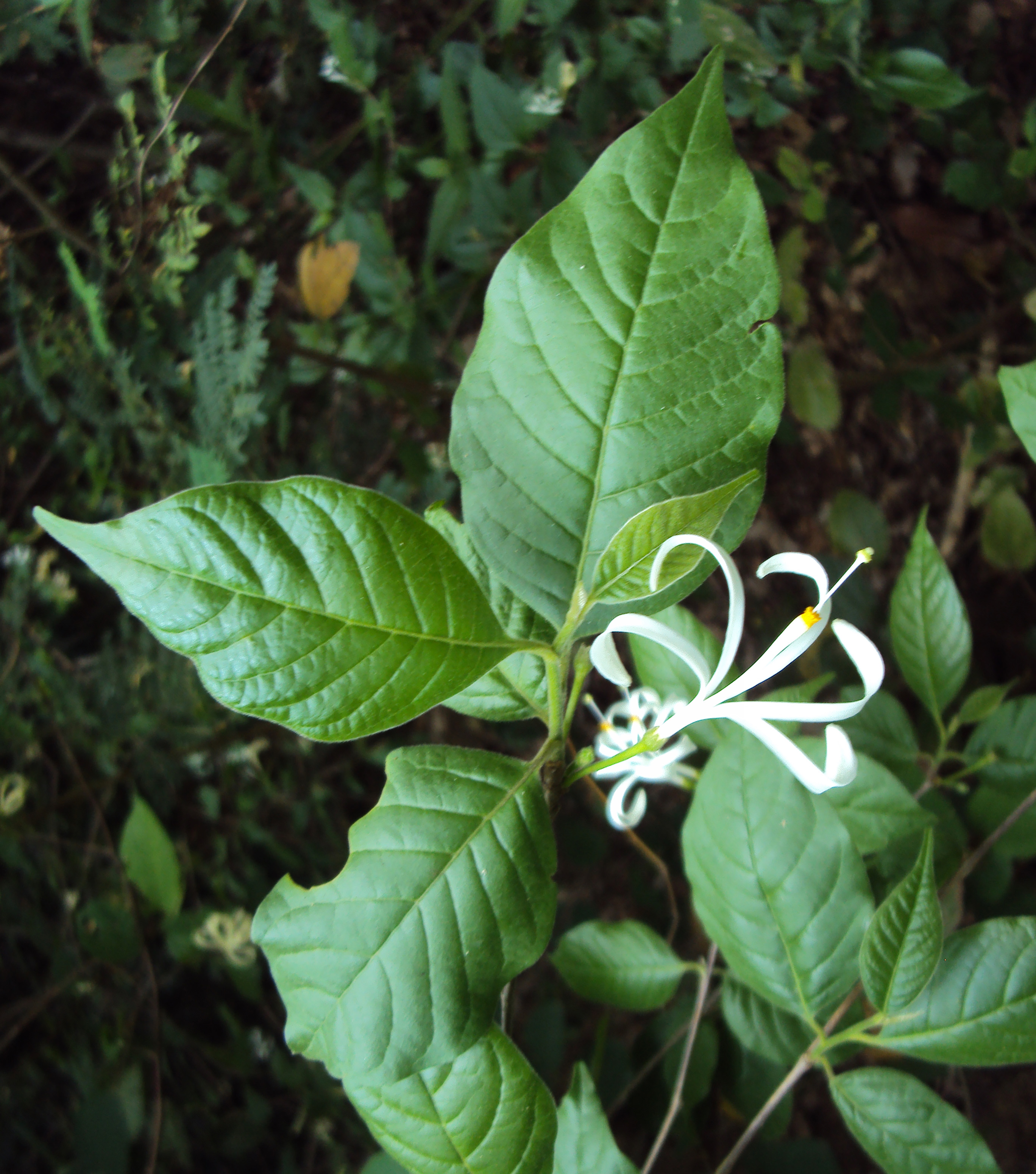 Turraea villosa